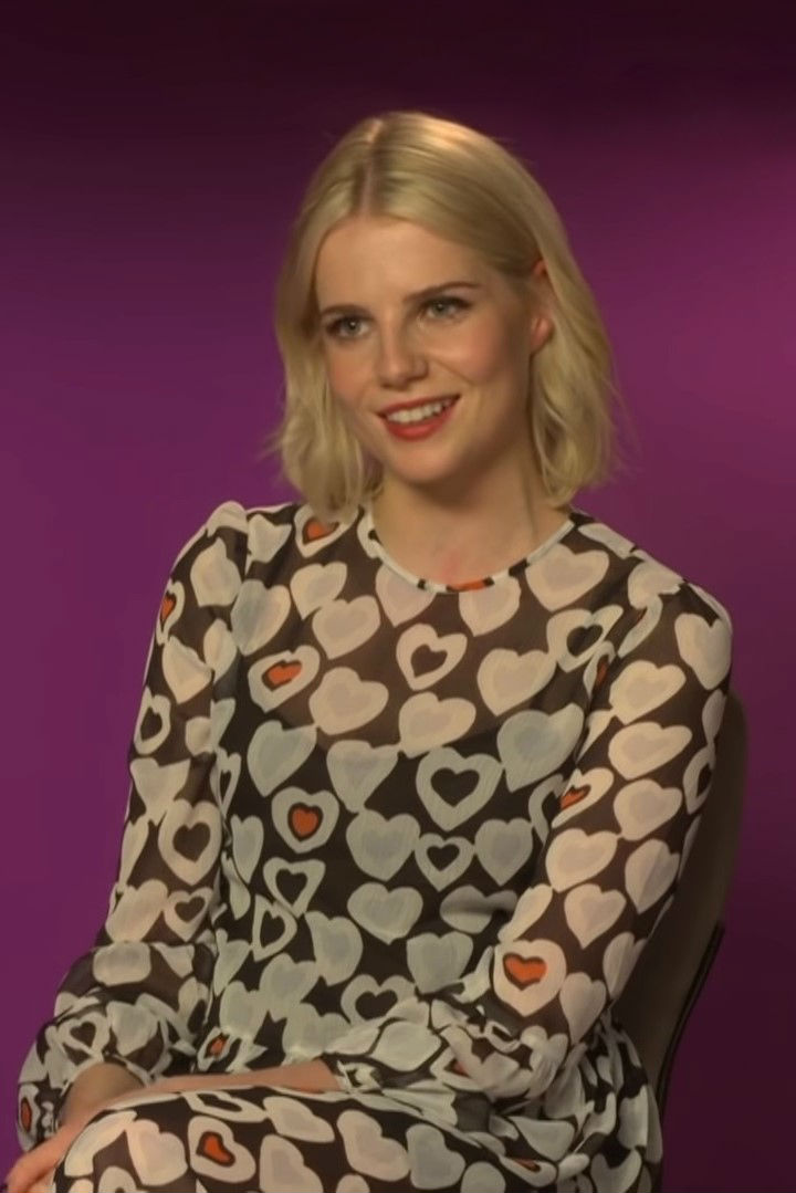 The stars of Queen biopic BOHEMIAN RHAPSODY Rami Malek, Joseph Mazzello, Gwilym Lee, and Lucy Boynton play a REGAL and FABULOUS game of Who Said It: QUEEN or THE QUEEN! Can they work out who said each quote? Plus, the cast give us all the deets on the incredible extended, 20 minutes long LIVE AID scene you WON’T see in cinemas. Subscribe to MTV for more great videos and exclusives!